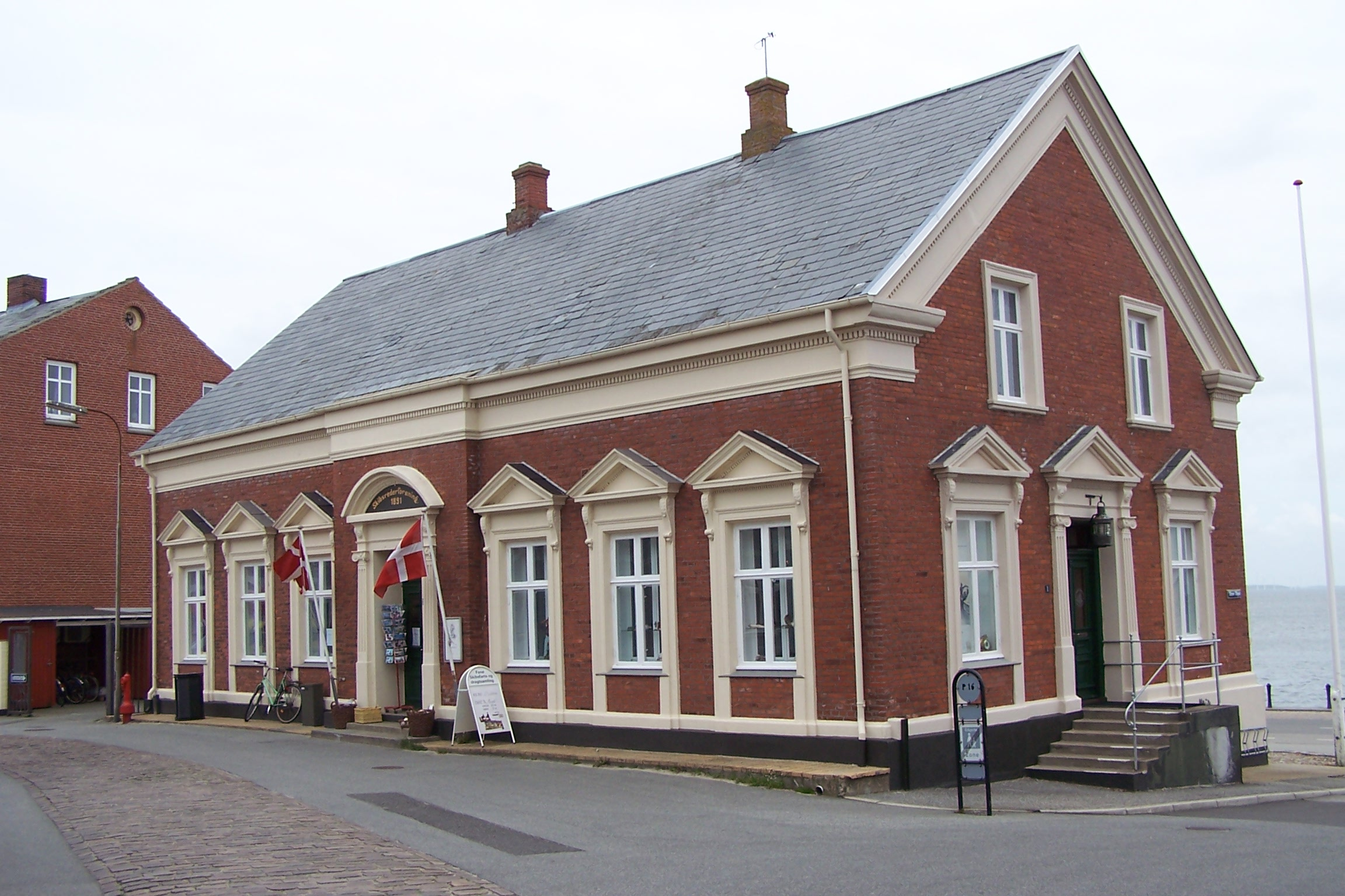 Museum of shipping in Nordby on Fanø, Denmark. Photo Cnyborg, May 2005